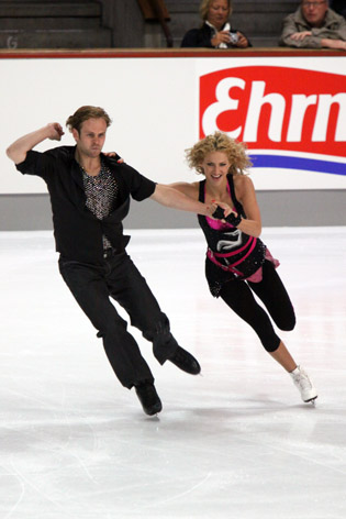 Nora HOFFMANN & Maxim ZAVOZIN (HUN) at the 2009 Nebelhorn Trophy.